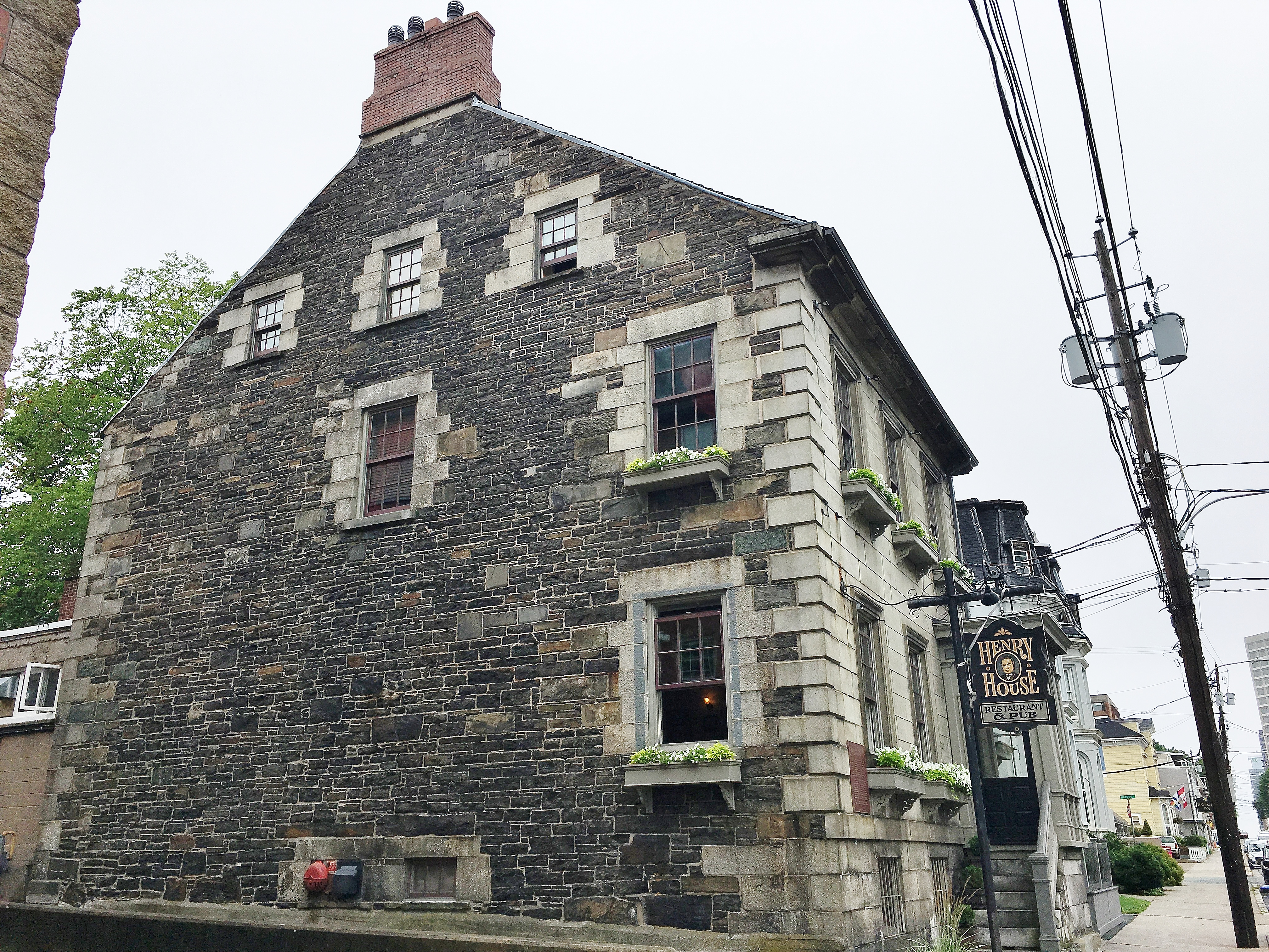 Photograph of the Henry House in Halifax, Nova Scotia, Canada (August 2019)